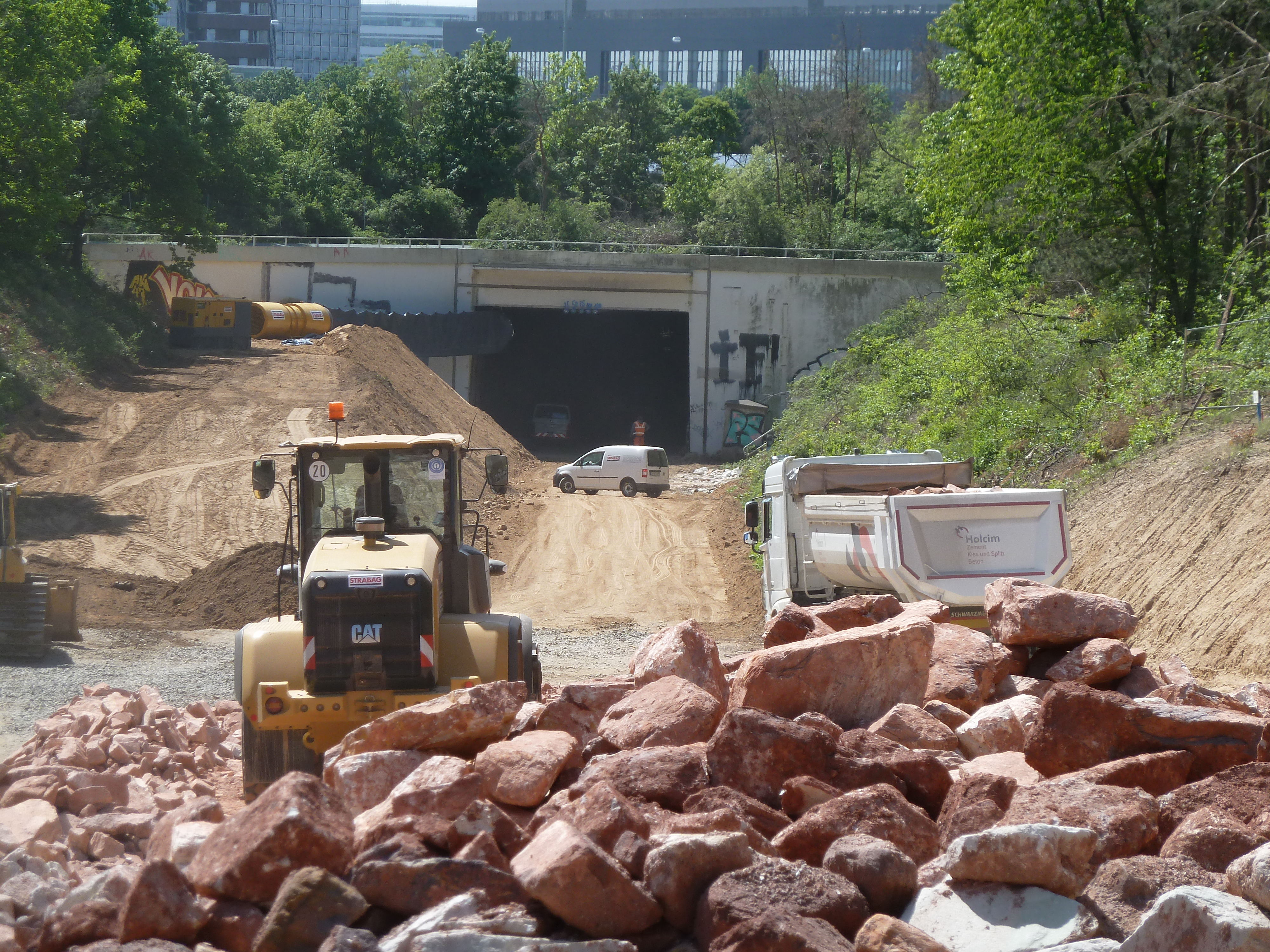 Dismantling of the original airport loop, May 2020.